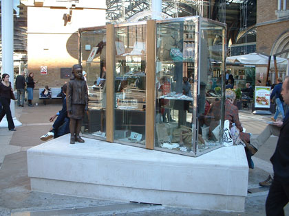 Für Das Kind Kindertransport Memorial at Liverpool Street Station, London 2003